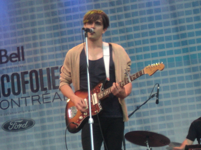 Picture taken by Werldwayd of Peter Peter performing live during the FrancoFolies de Montréal Festival on 18 June 2014